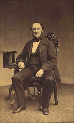 Danish industrialist, businessman, politician Lauritz Peter Holmblad (1815-1890)